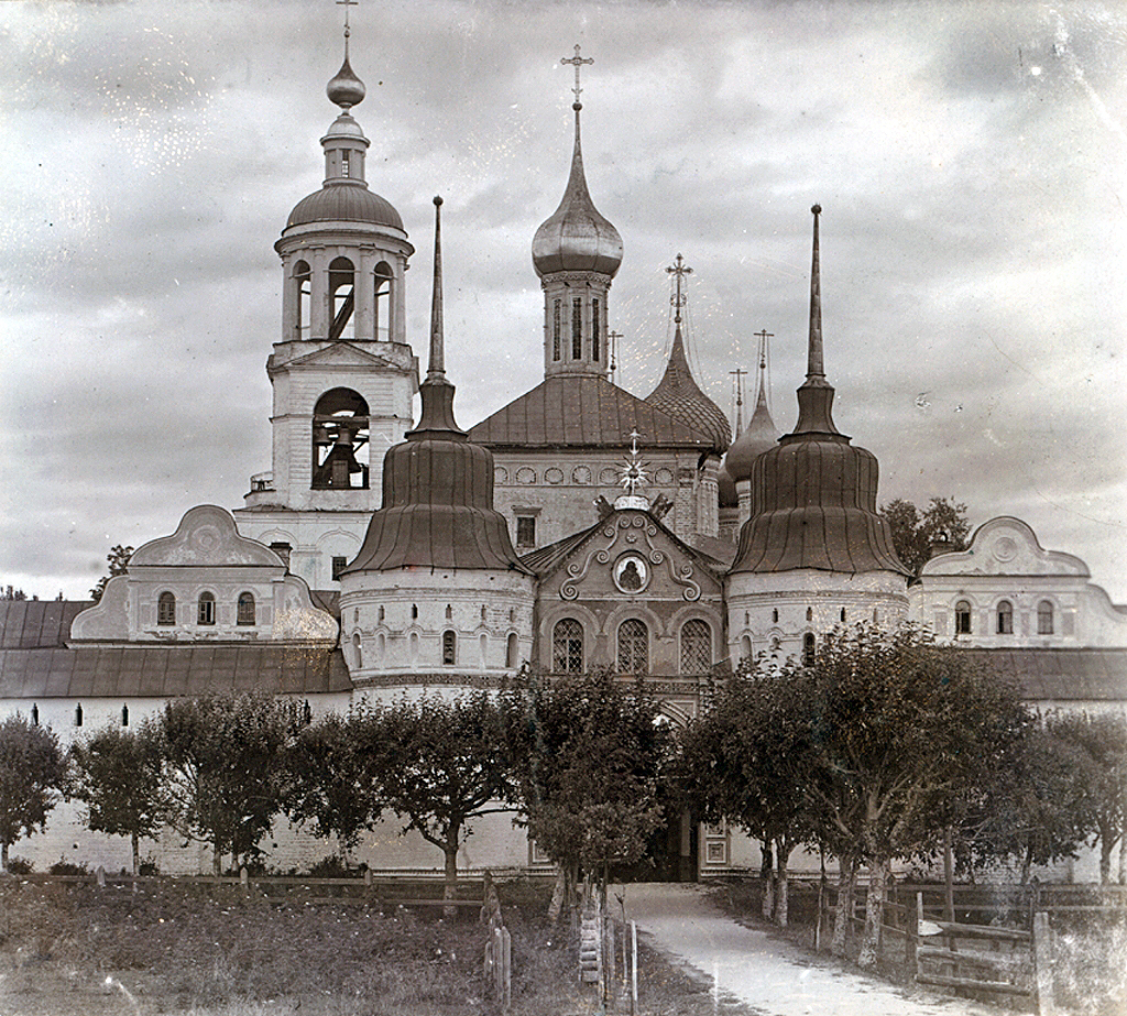 Tolga Monastery in Yaroslavl.